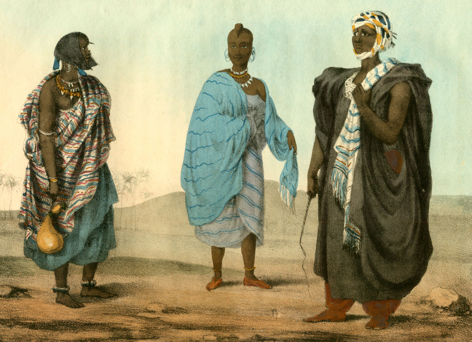 "Tibboo of Gatrone" by Lyon